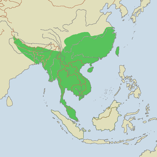 historic range of the clouded leopard, based on the IUCN entry and Grzimek's Tierleben - Band 12